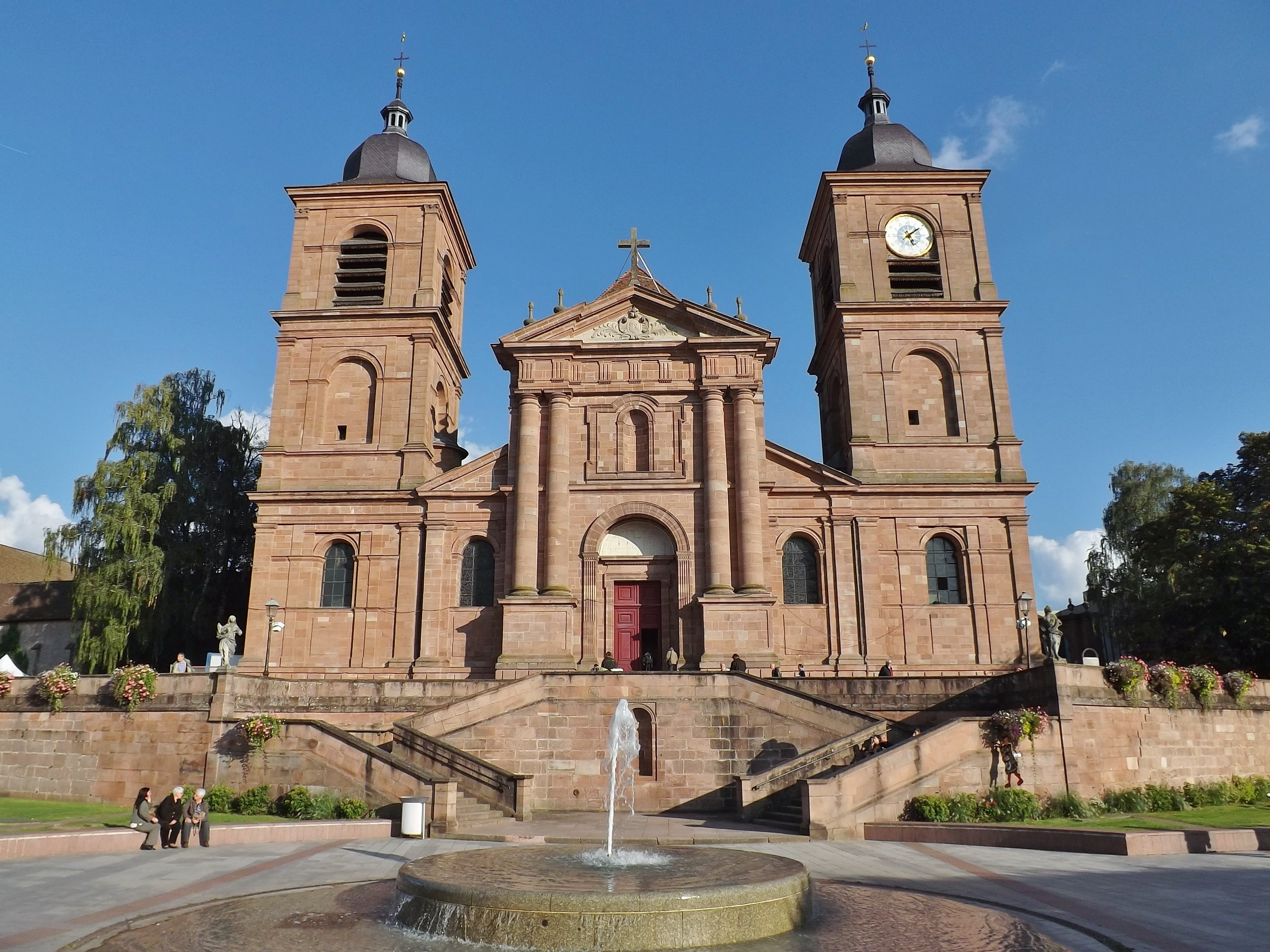 Sight of the cathédrale Saint-Dié cathedral of Saint-Dié-des-Vosges, in Vosges, France.